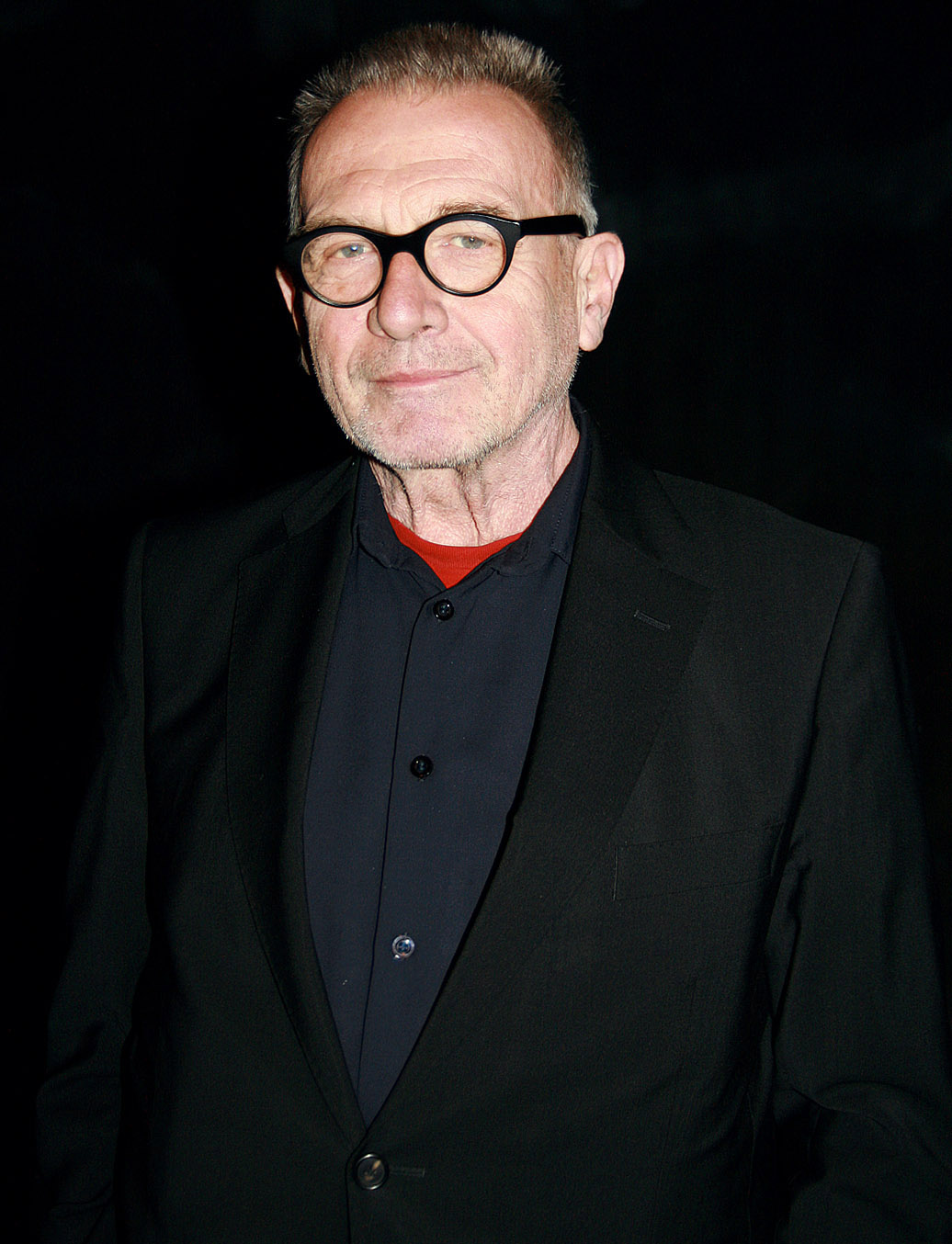 Erwin Piplits at the Austrian Film Awards 2011 at the Odeon theater in Vienna.